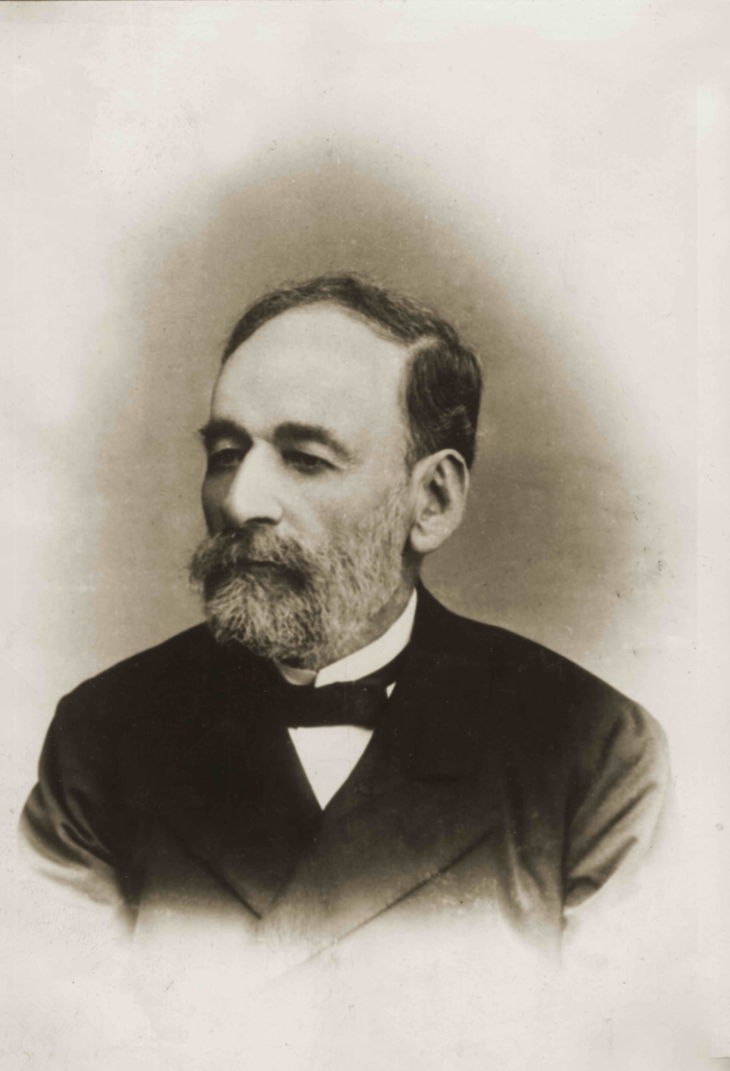 Hristo G. Danov